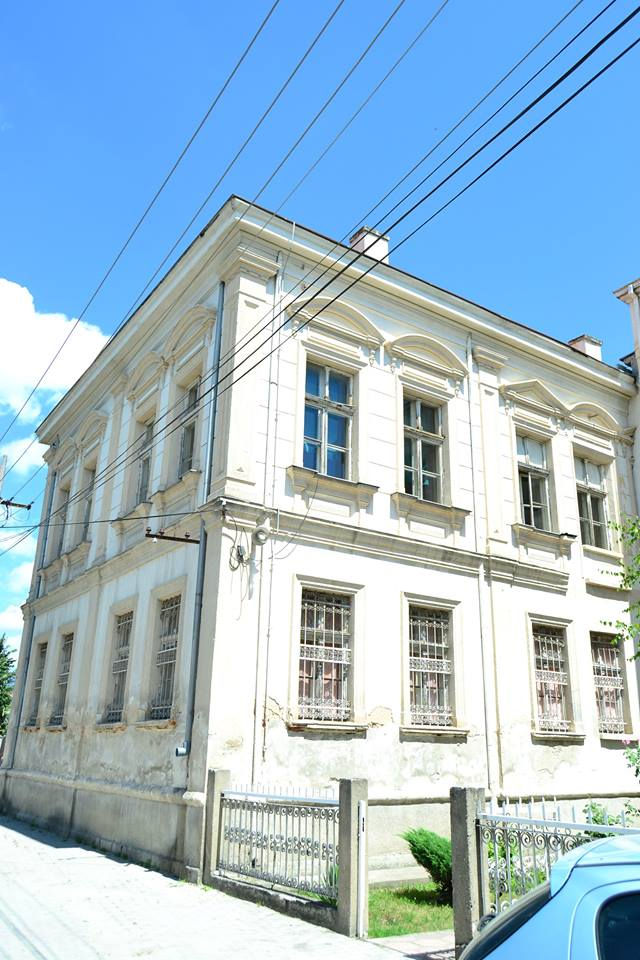 The building of the archives of Prilep, a department of the State Archives of the Republic of Macedonia. This media file is produced by Wikipedian in Residence in Category:Wikipedian in Residence at DARM in 2016.